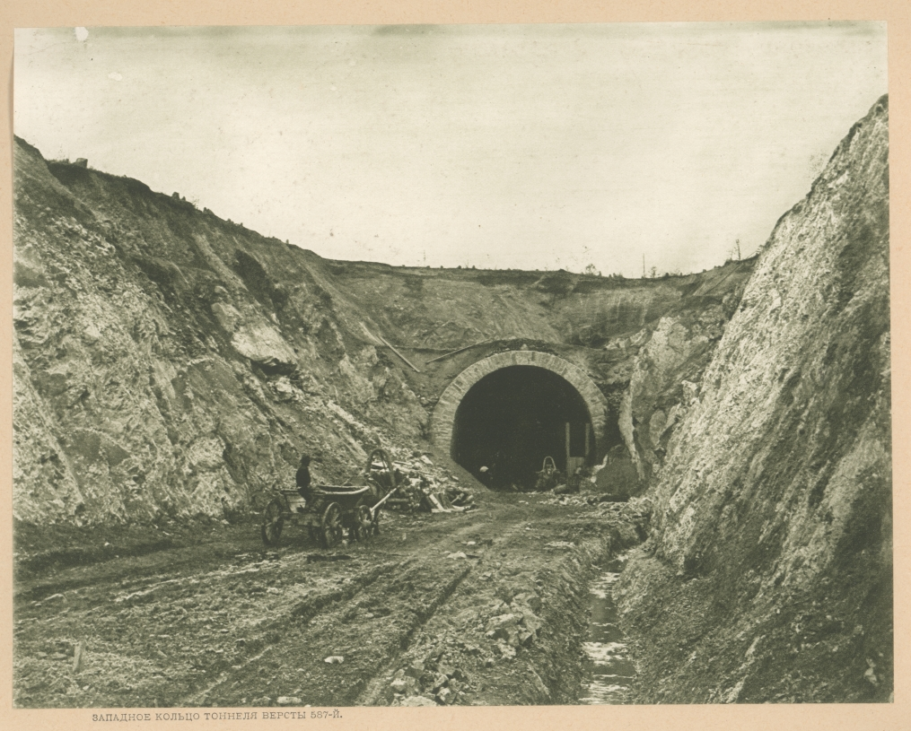 Western entrance to a tunnel on the Amur Railway (587th versta) during construction